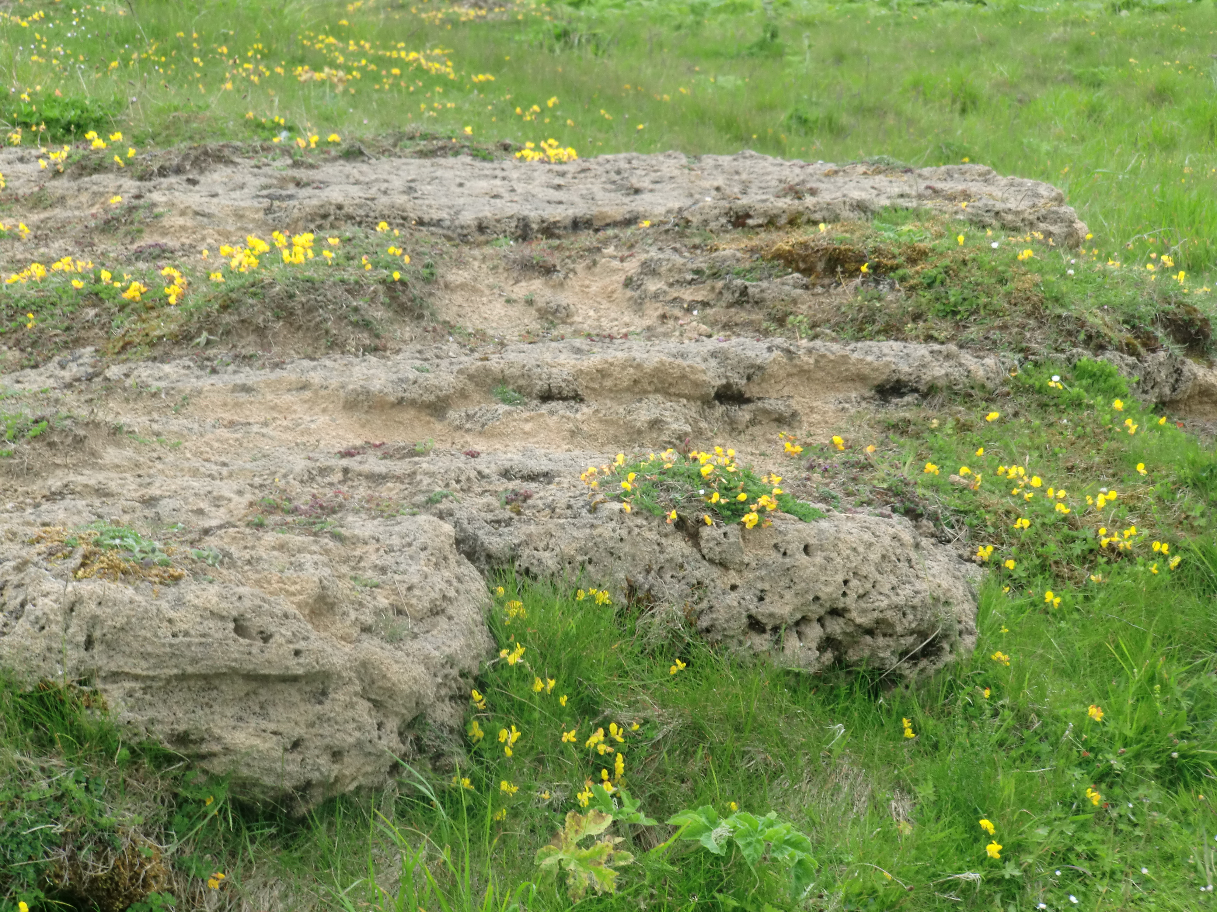 Outcrop of aeolianite at Aikerness, Orkney, Scotland